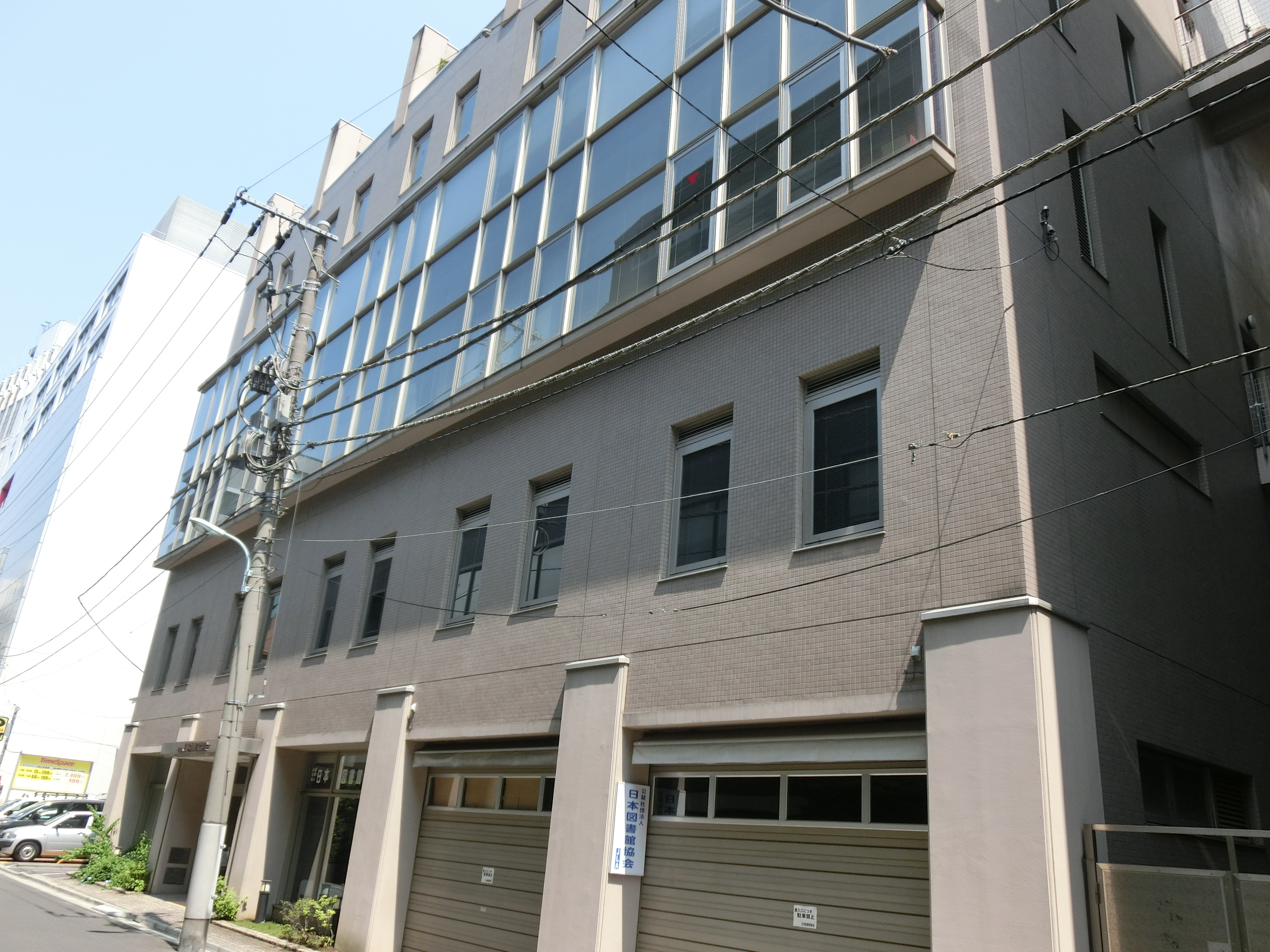 Japan Library Association Headquarters